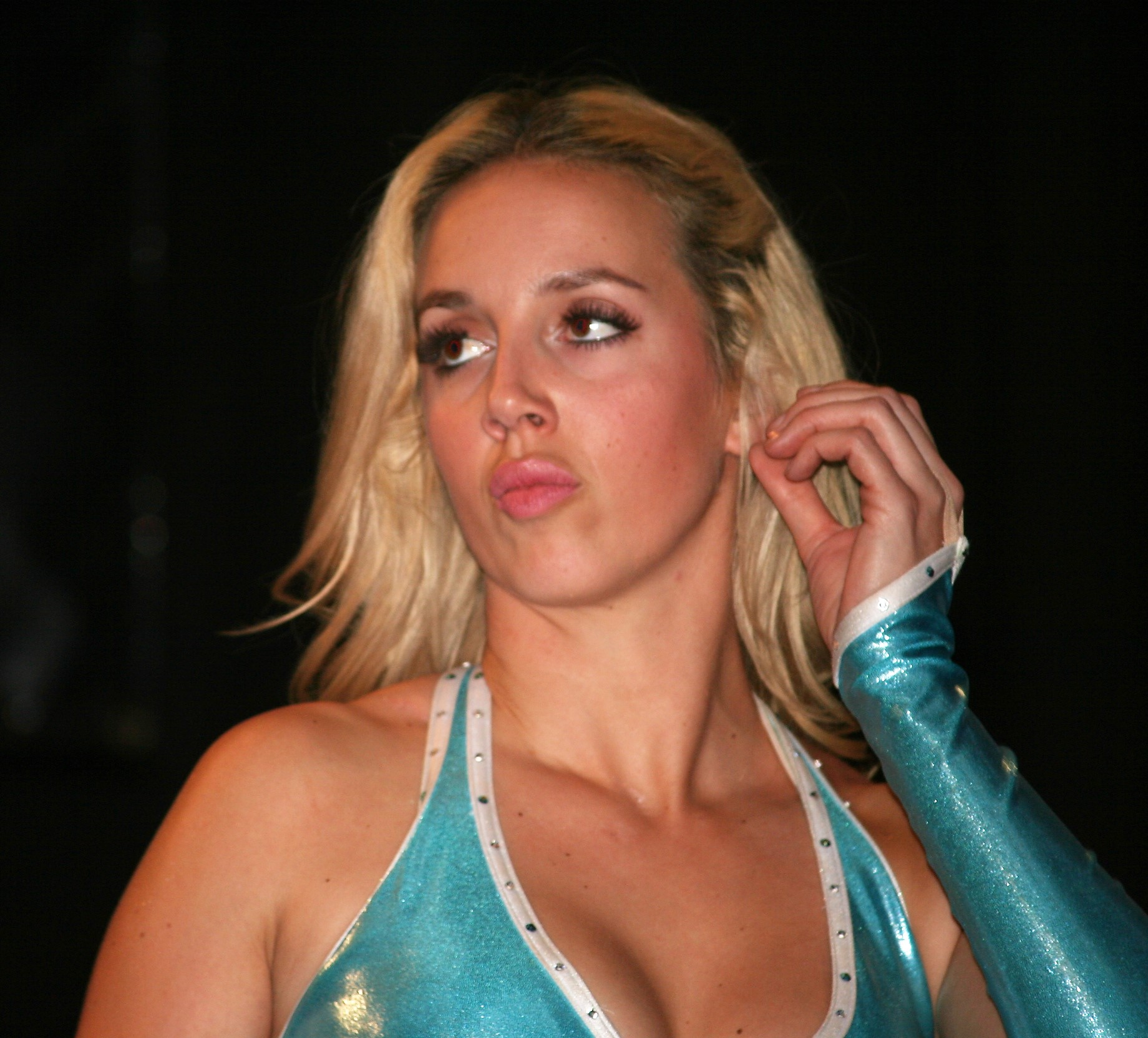 Laurel Van Ness at the Queens of Combat day show in Gibsonville, NC February 18th 2017